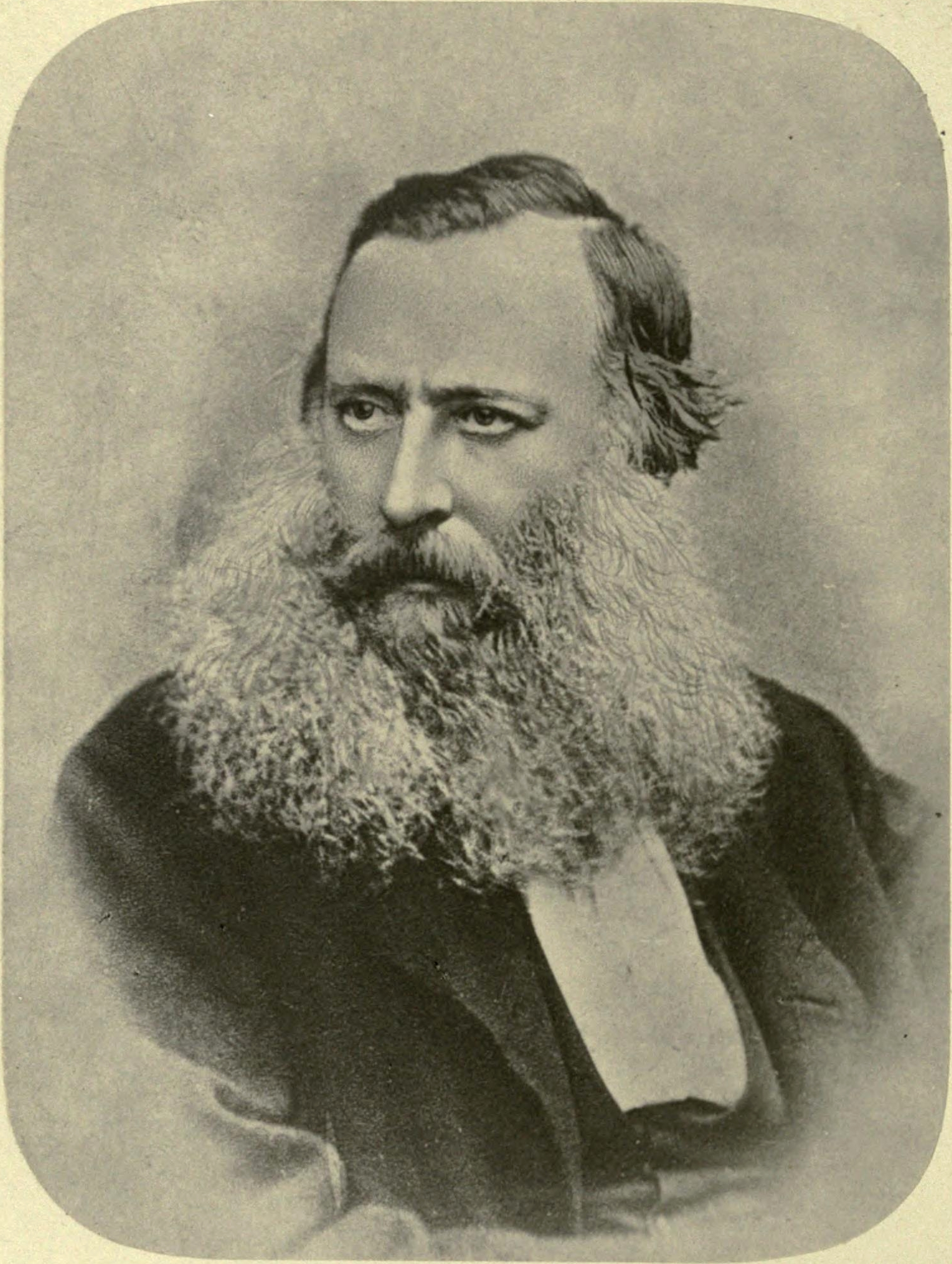 Woodburytype portrait of Edward Blyth (1810-1873).